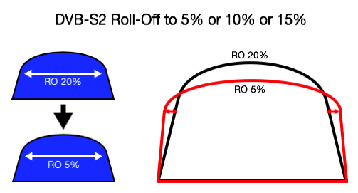 This image represents the DVBS-2X 5%, 10% or 15% roll-off factors